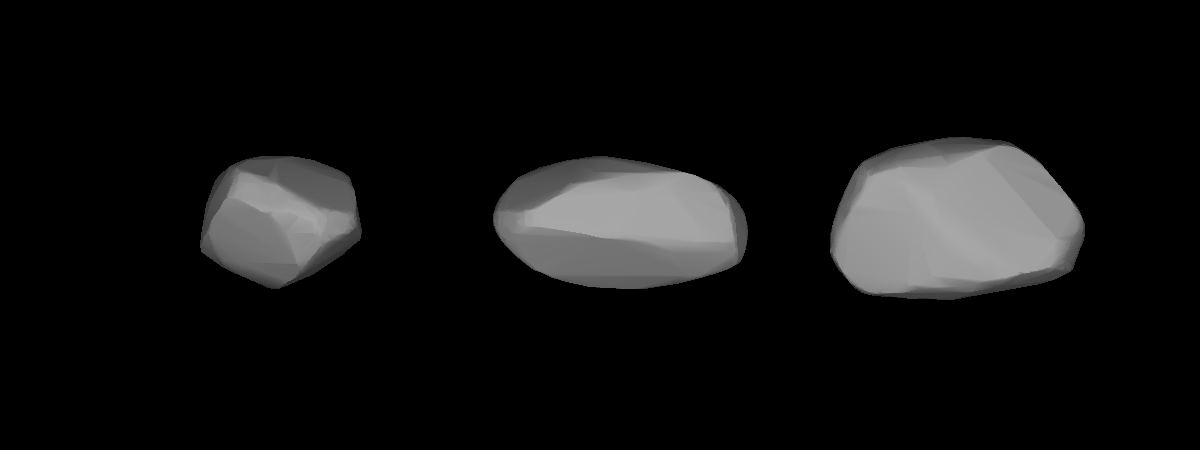 A three-dimensional model of 7905 Juzoitami that was computed using light curve inversion techniques.